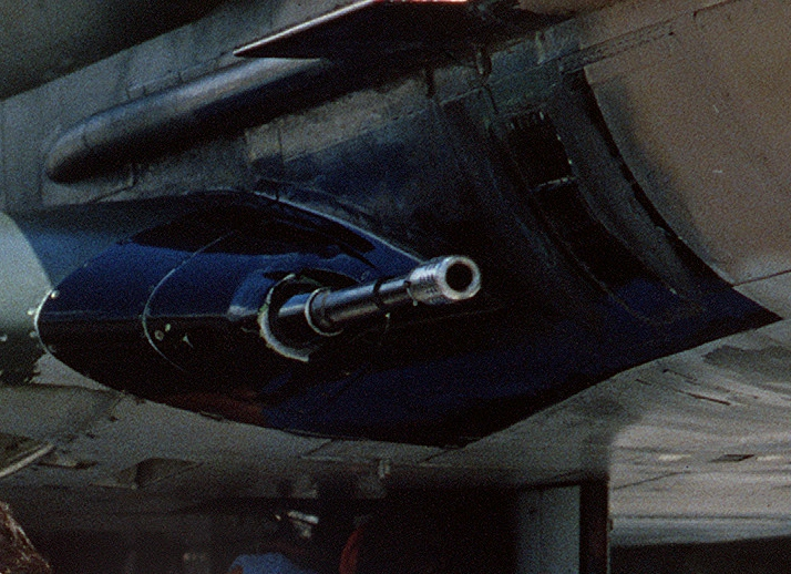 View of a Colt-Browning Mk 12 20 mm cannon of a Douglas A-4K Skyhawk aircraft of No. 75 Squadron, Royal New Zealand Air Force, at Clark Air Base, Philippines.